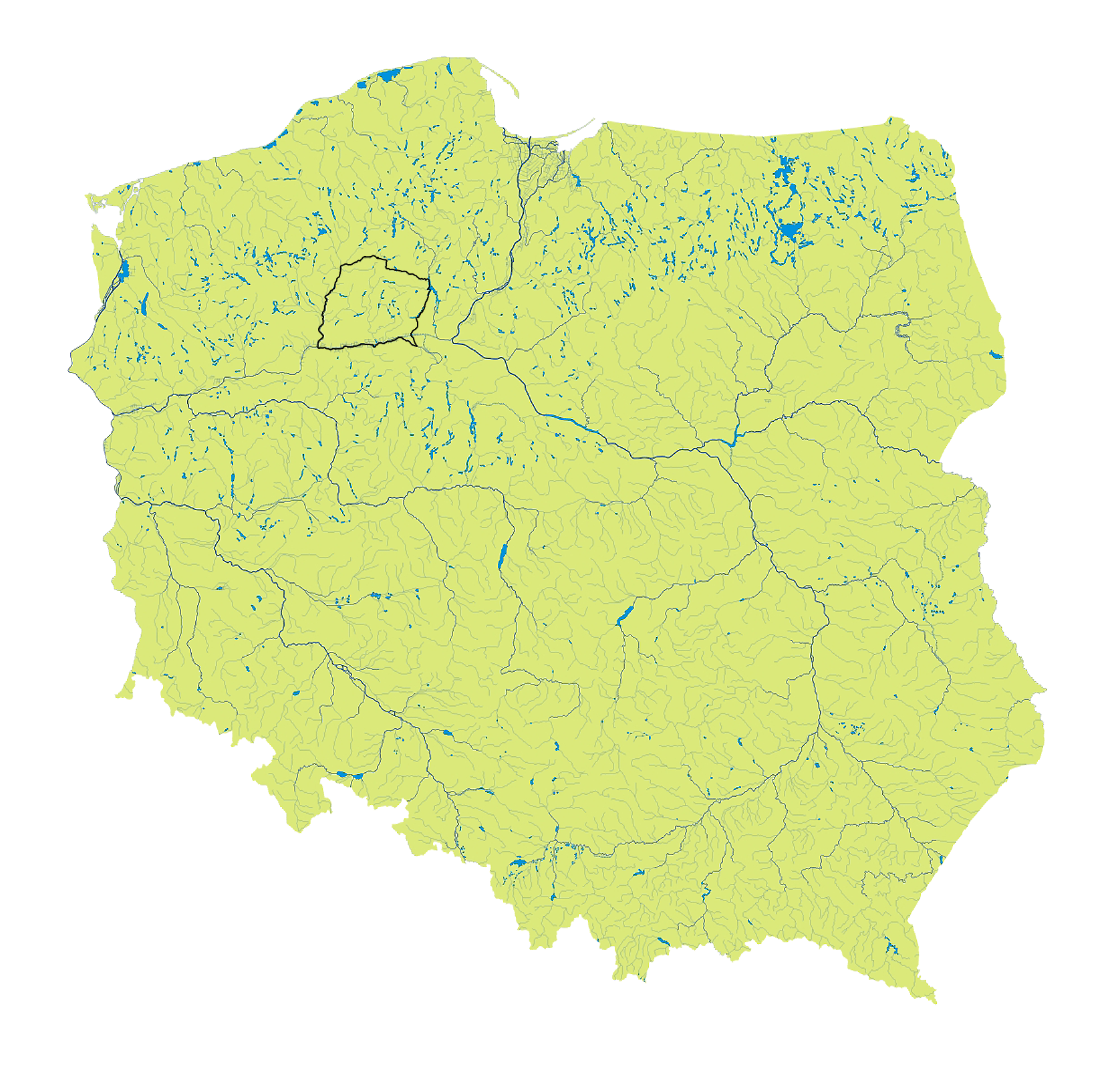 Location of Krajna region in Poland on hydrographic map.